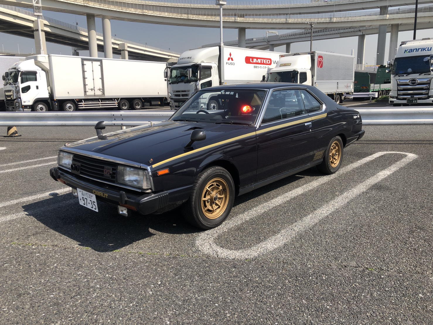 Nissan Skyline 2000GT-ES.